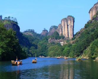 Peak Yunu in Wuyi Mountain, Fujian, China